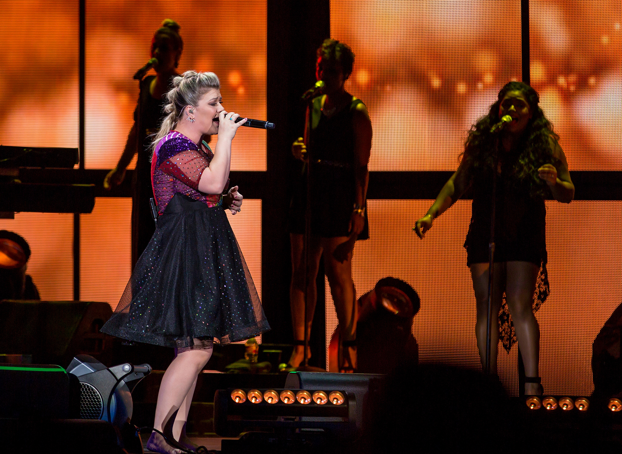 Kelly Clarkson performing on stage during the 2015 Piece By Piece Tour held at the Austin360 Amphitheater in Austin, Texas on August 29, 2015.